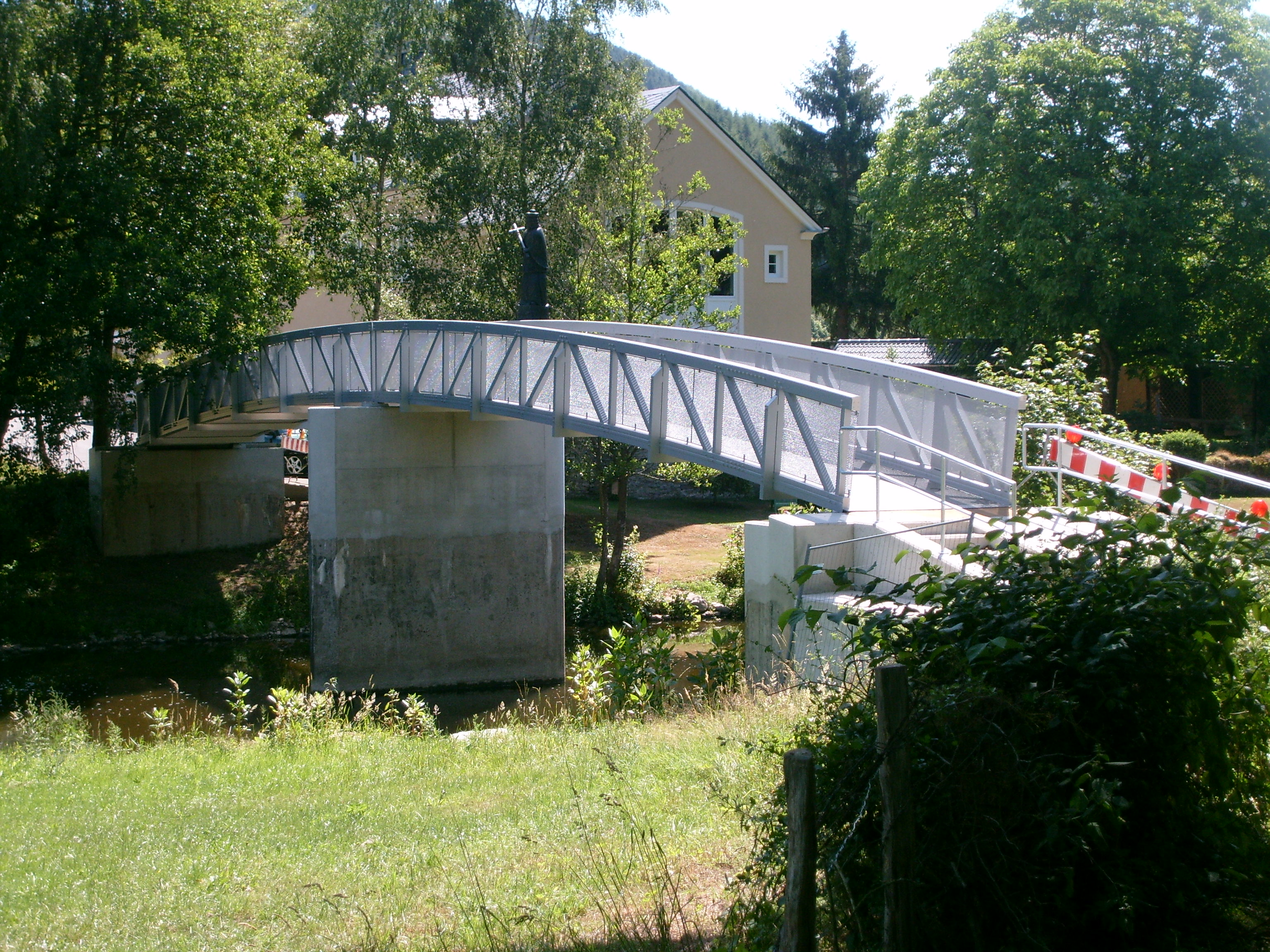 Foot and bycicle bridge at Doernauelsmuehle between Luxembourg and Germany.